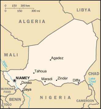 Map of Niger.